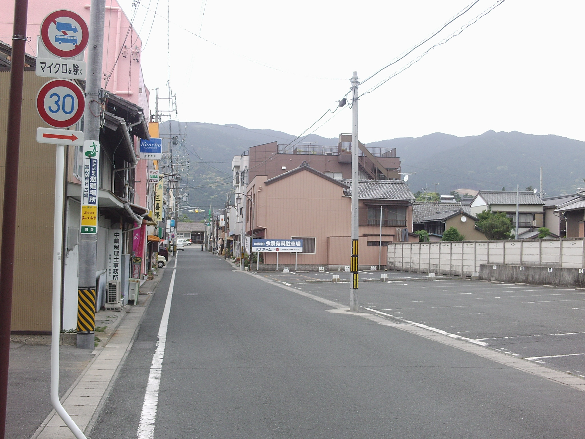 Aichi prefectural road No.446 in Machinami, Shinshiro, Aichi.